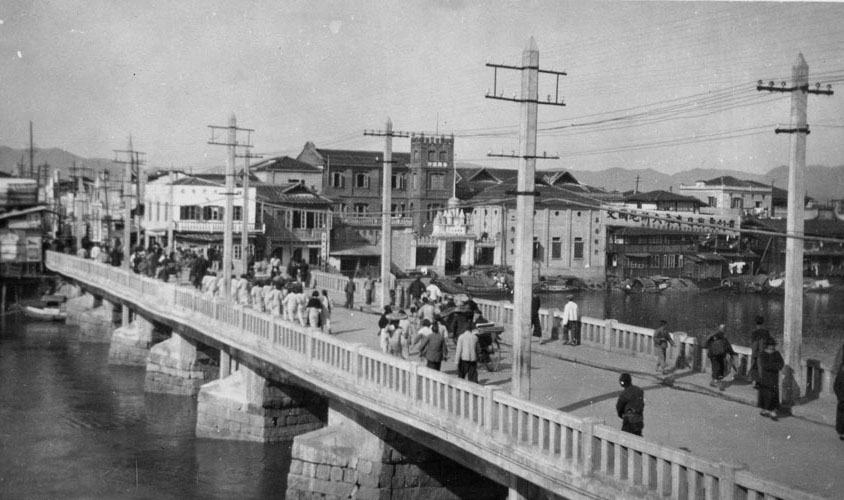 Bridge of Ten Thousand Ages, Fuzhou, ca. 1932